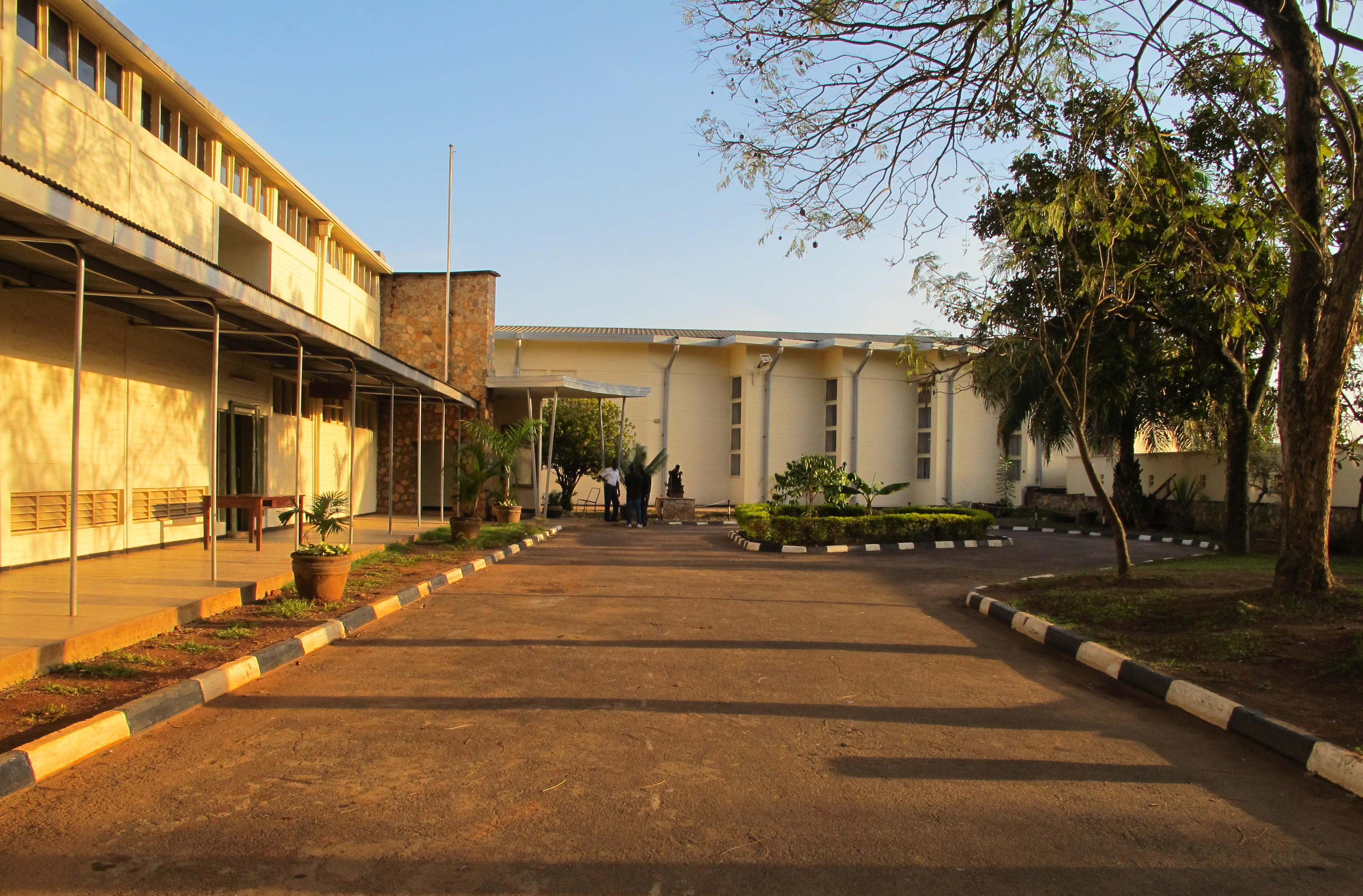 Museum Entrance